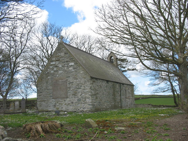 The llan at Rhosbeirio from the east